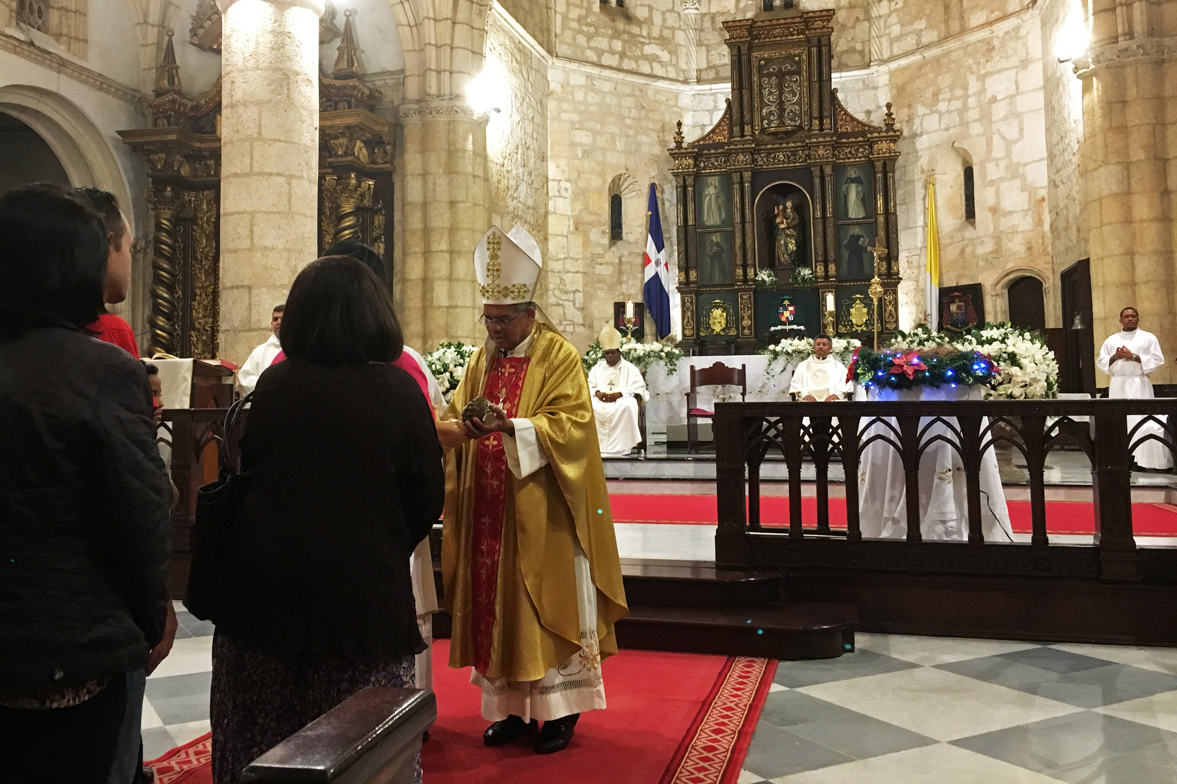 Archbishop Francisco Ozoria Acosta celebrating Christmas Mass at Catedral Primada de America, Santo Domingo, Dominican Republic. Santo Domingo's Auxiliary Bishop Jesús Castro Marte sitting in the back left.